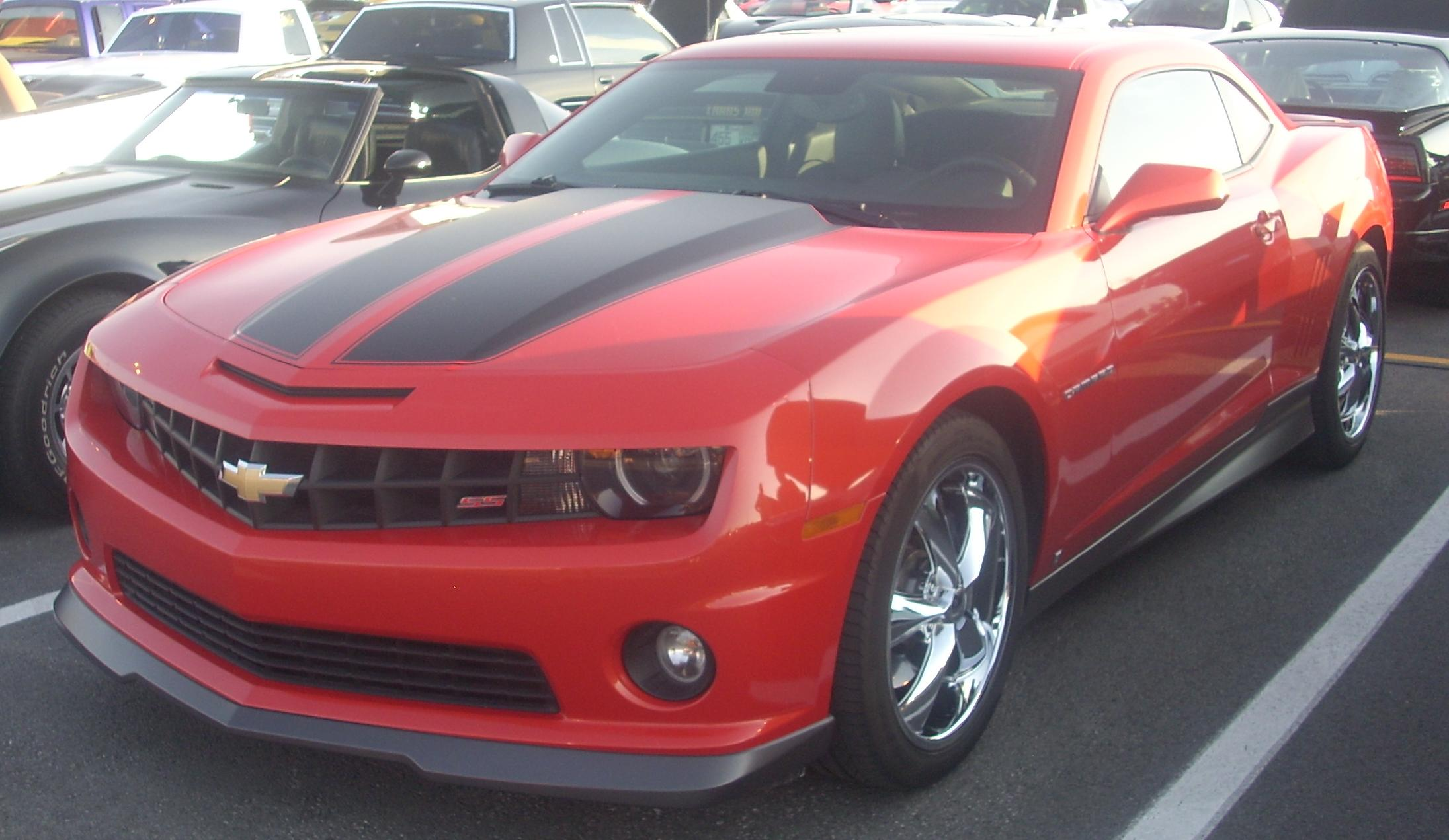 2010 Chevrolet Camaro SS photographed in Laval, Quebec, Canada at Centropolis Laval.